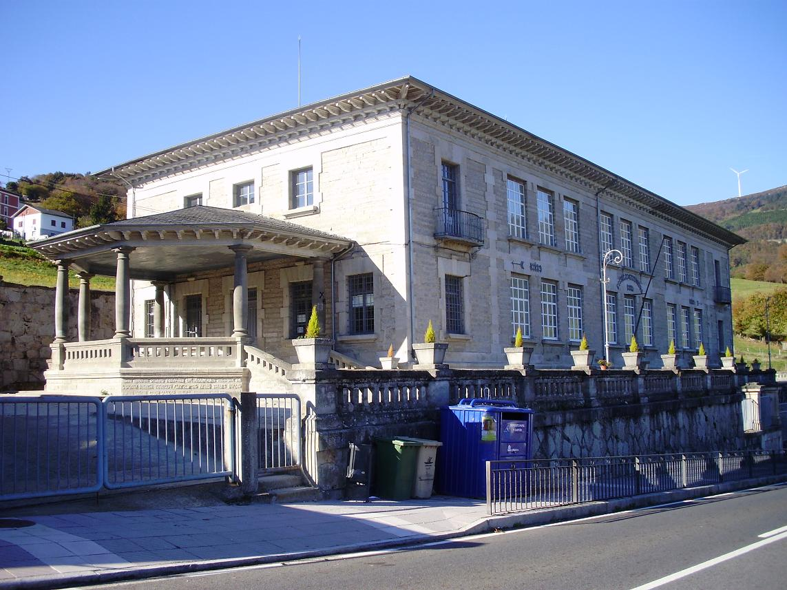 School built in Boal at the early 1930s mainly with the financial support from the "Sociedad de Instrucción Naturales del Concejo de Boal", established in november 1911 in La Habana (Cuba) by emigrants from that asturian village.